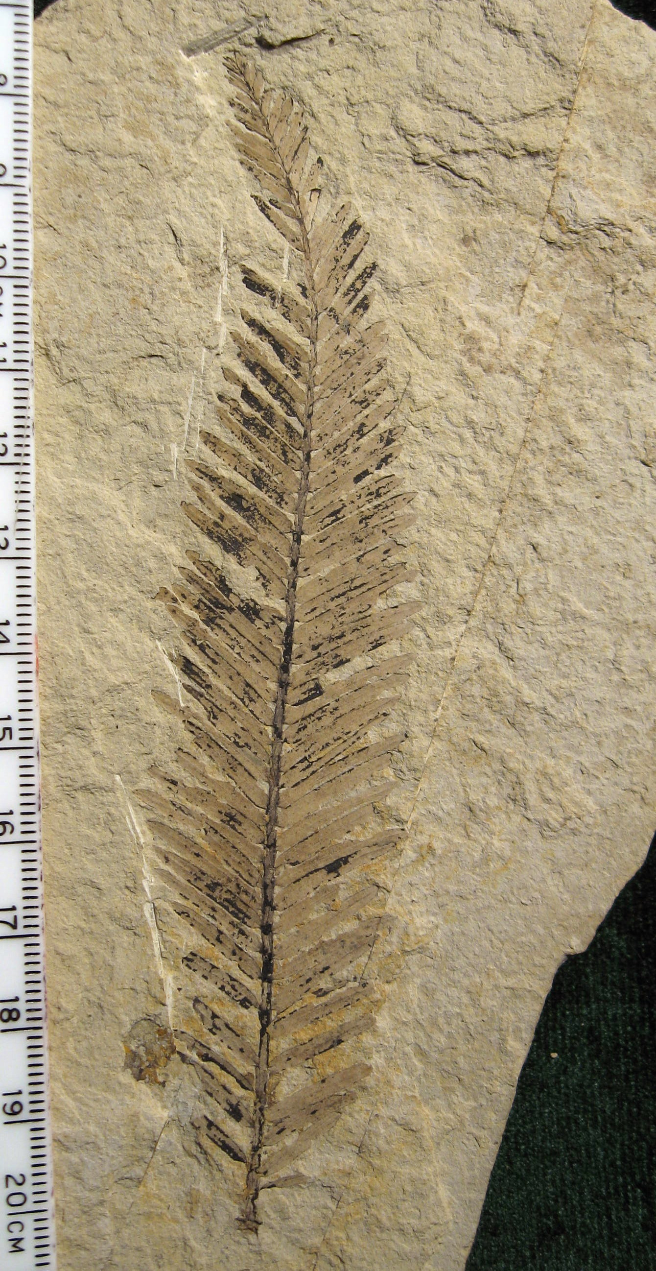 A 13cm long Metasequoia occidentalis foliage spray. Klondike Mountain Formation, Republic, Ferry County, Washington, USA, Eocene, Ypresian, 49 million years old. Stonerose Interpretive Center Collection #